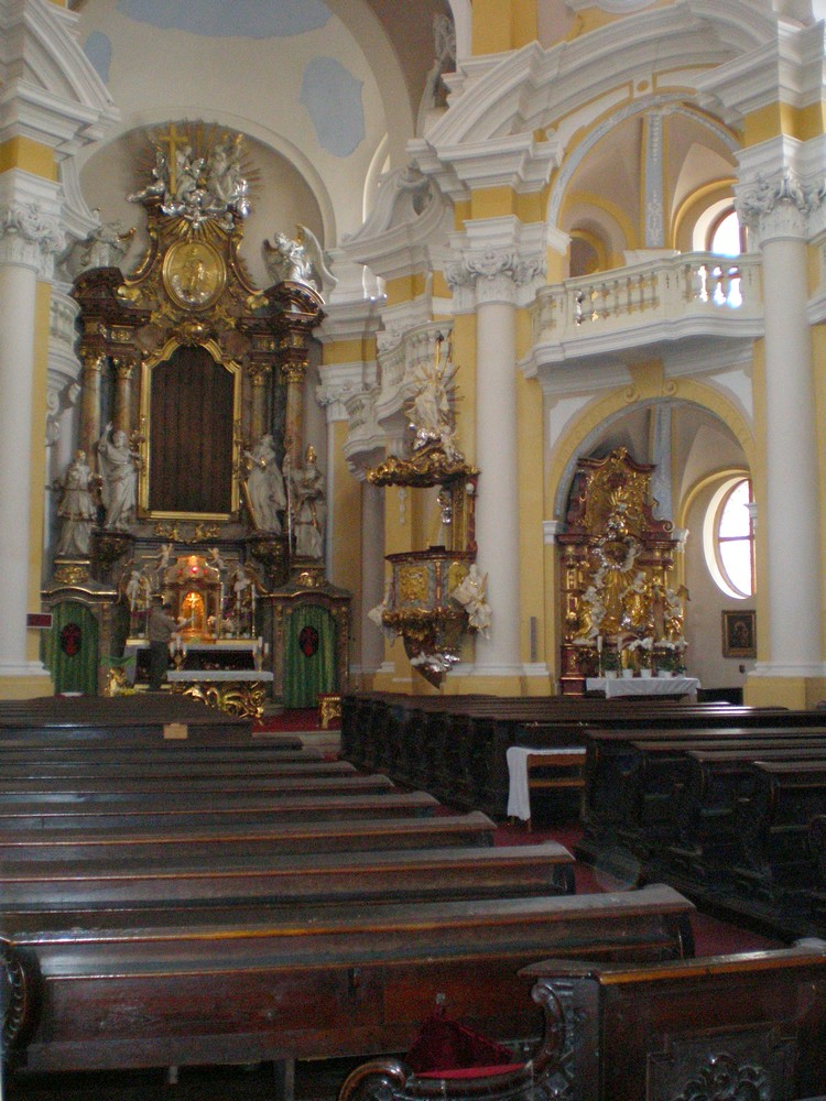 St. Mary Magdalene's Church, Karlovy Vary, Czech Republic, interiors